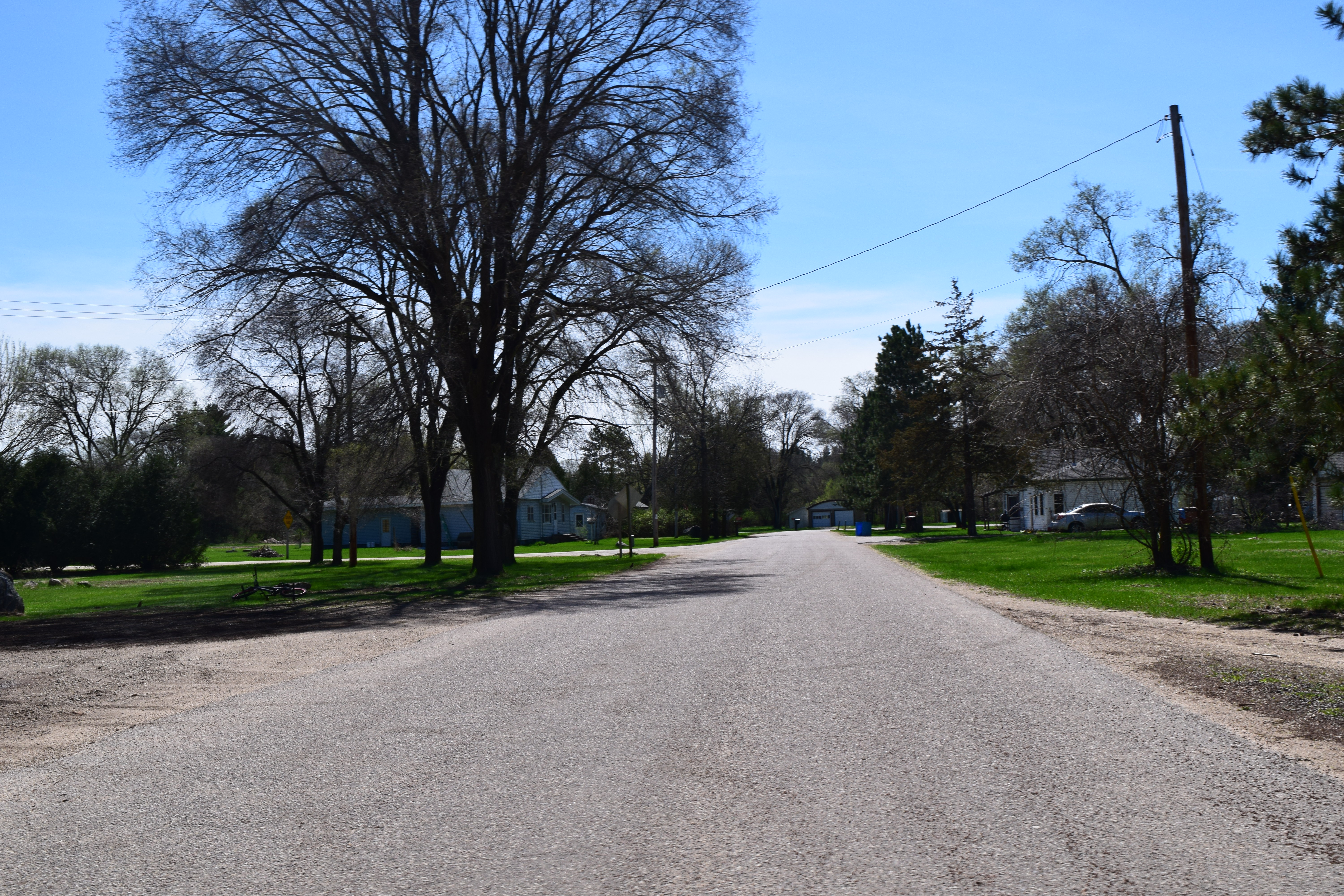 Houses along Helena Road in Helena, Wisconsin.